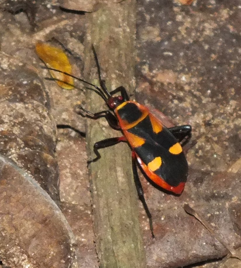 Pyrrhocorid bug, genus Roscius, walking on forest floor, Burman Bush Nature Reserve, Durban